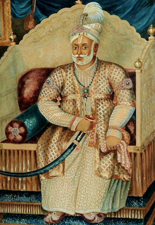 Karthika Thirunal Rama Varma King of Travancore (1758 - 1798)